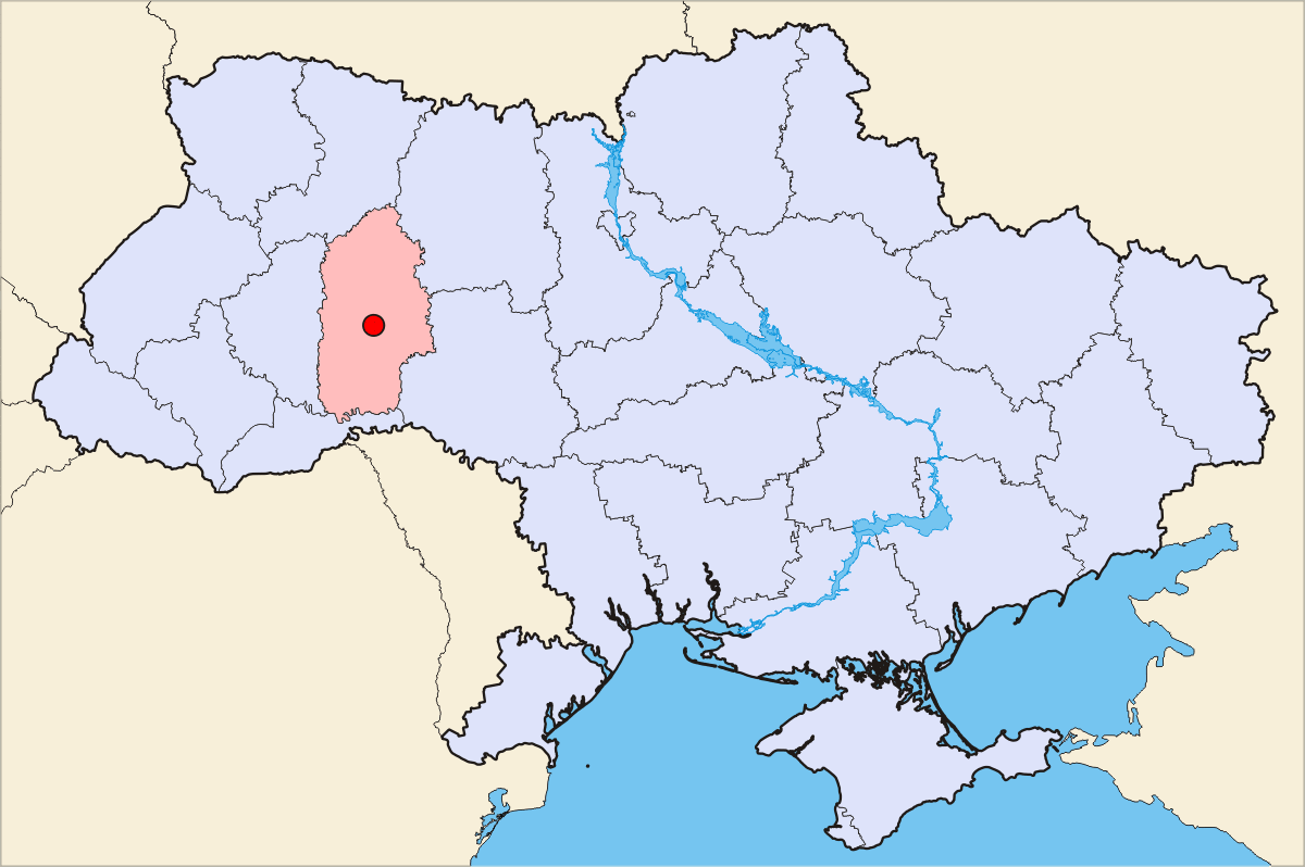 Description = Khmelnytskyi geographical position Source = own work, Skluesener Date = 20.01.2006 Author = Skluesener Credits = Colours chosen according to a map of steschke